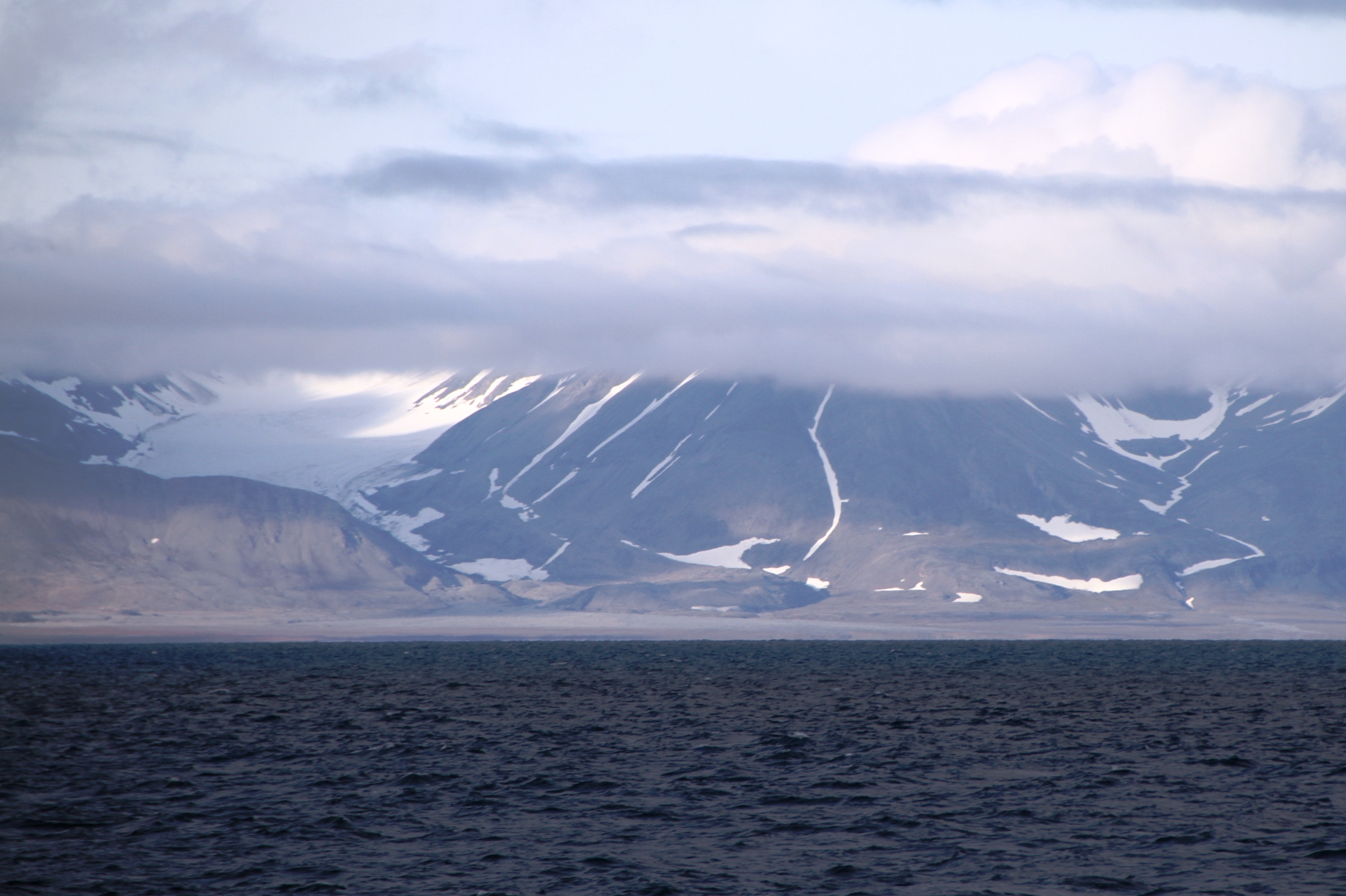 Image from the south(east) towards the north(west), showing the glacial mountaineous southern part og Oscar II Land, behind the Daudmansøyra coastal plain. Western Spitsbergen, Svalbard.